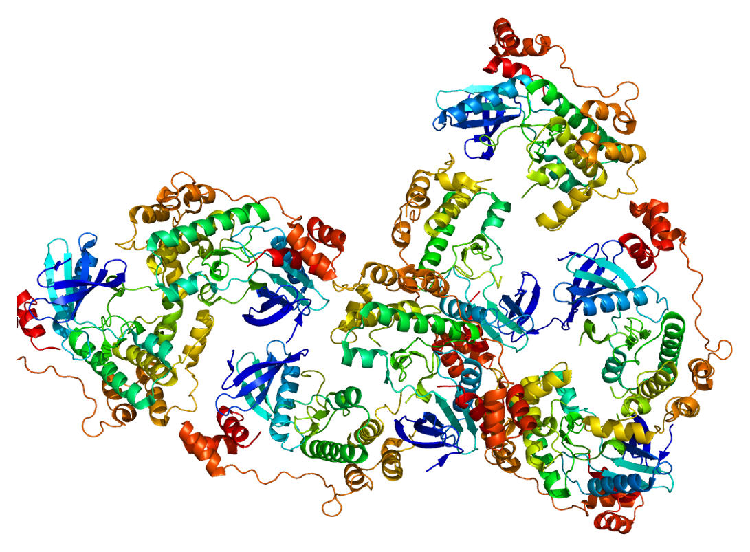 Structure of the MARK1 protein. Based on PyMOL rendering of PDB 2hak.